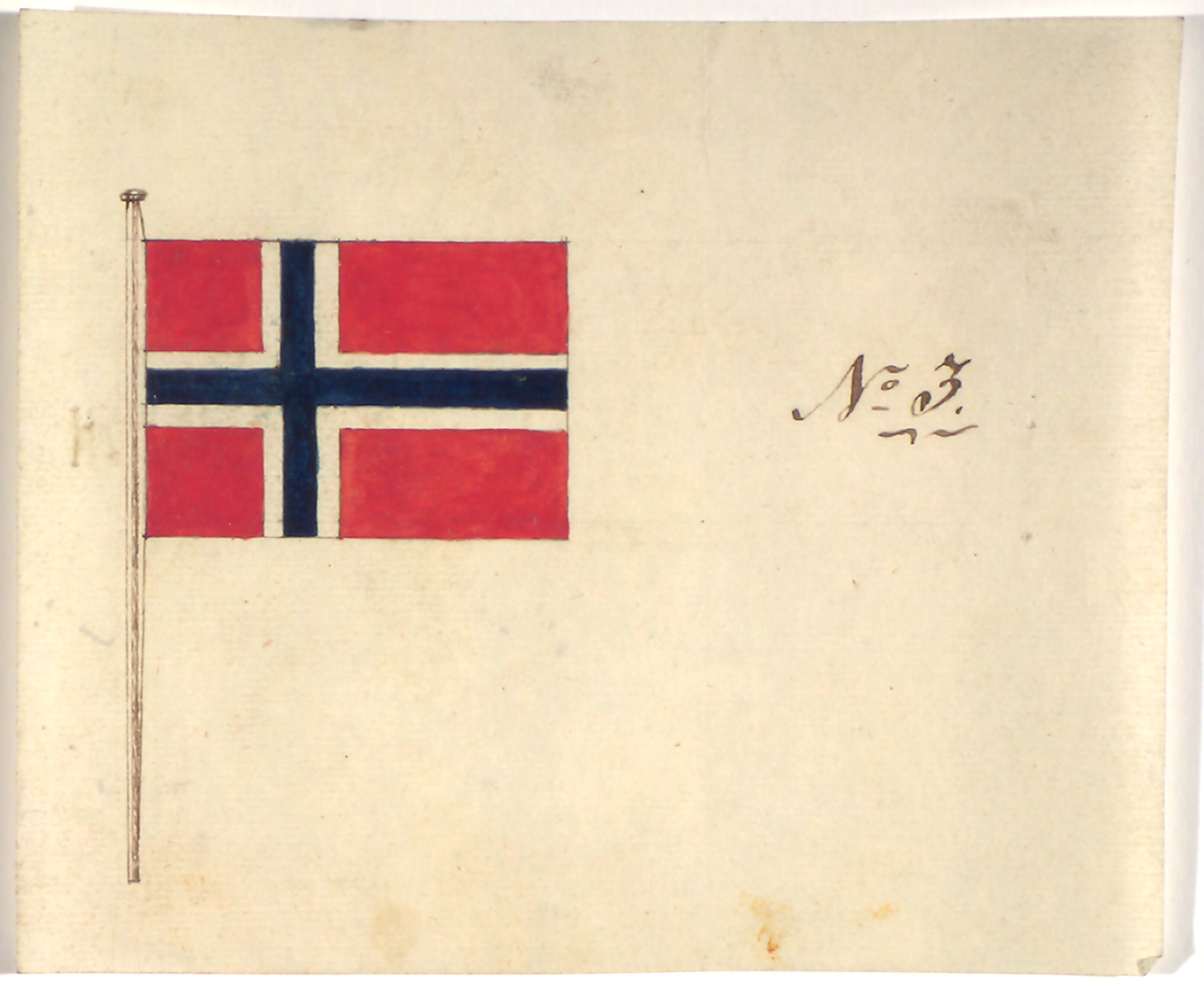 Proposal for the Norwegian flag by Fredrik Meltzer, 4 may, 1821